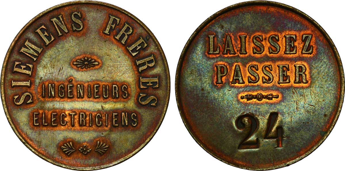 Laisser passer en cuivre rouge de l'entreprise Siemens. Fondation en 1878 à Paris de "Siemens Frères - Ingénieurs Electriciens" Installations 11, rue de Châteaudun puis 8, rue Picot et 181, rue de la Pompe, filiale de Siemens allemagne.